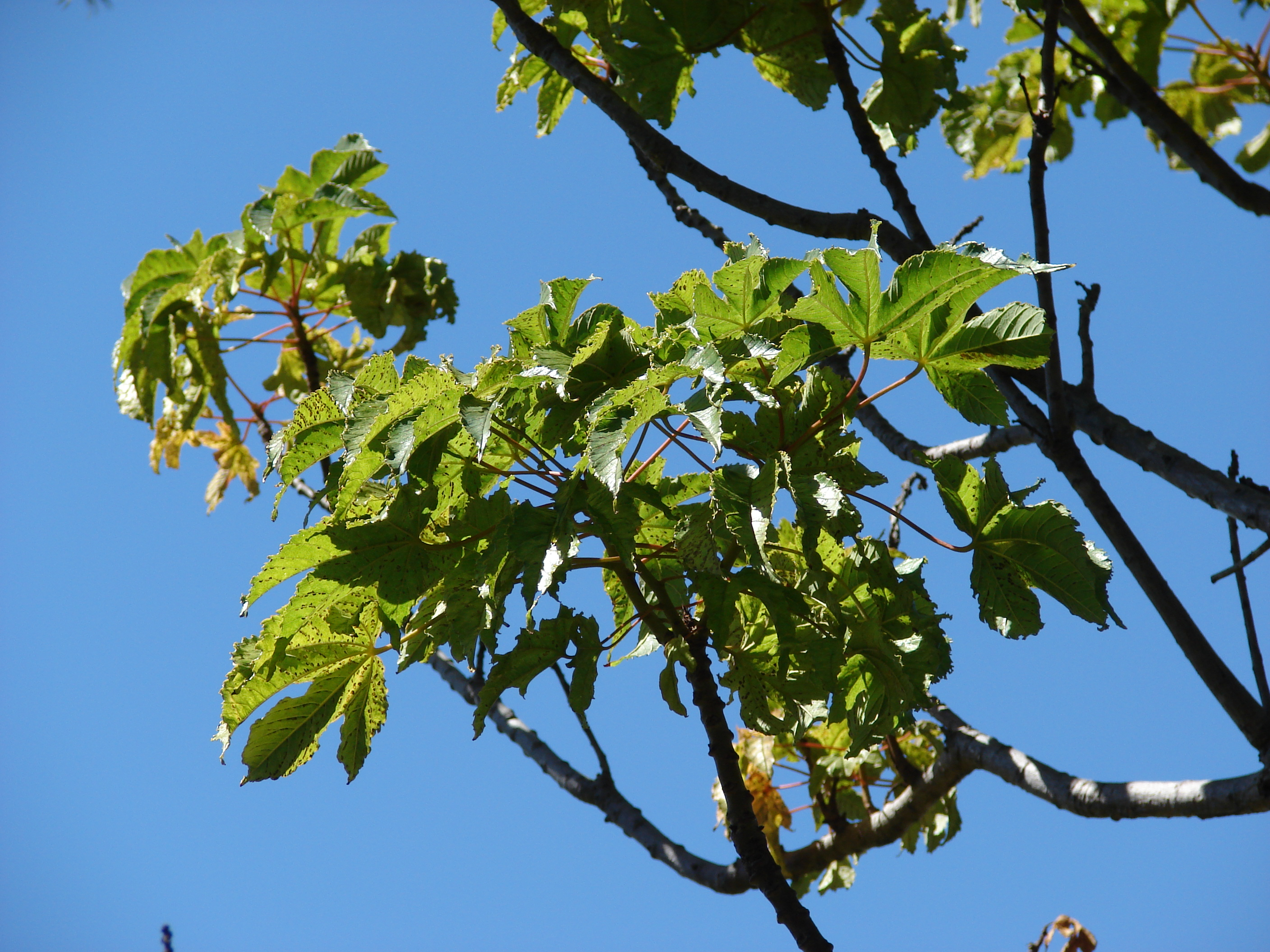 Cochlospermum vitifolium (leaves). Location: Maui, Enchanting Floral Gardens of Kula